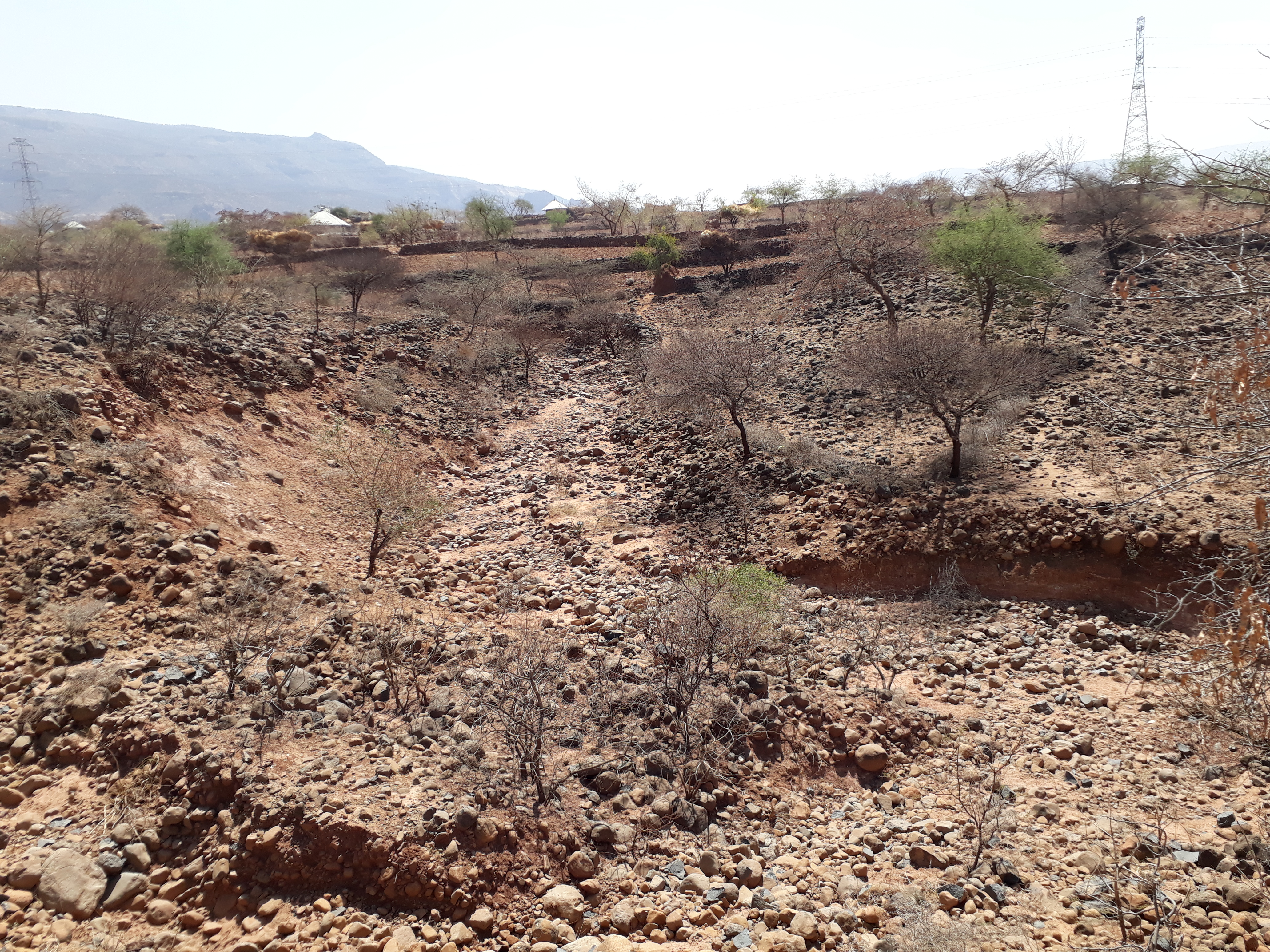 May Selelo in Dasarawat1